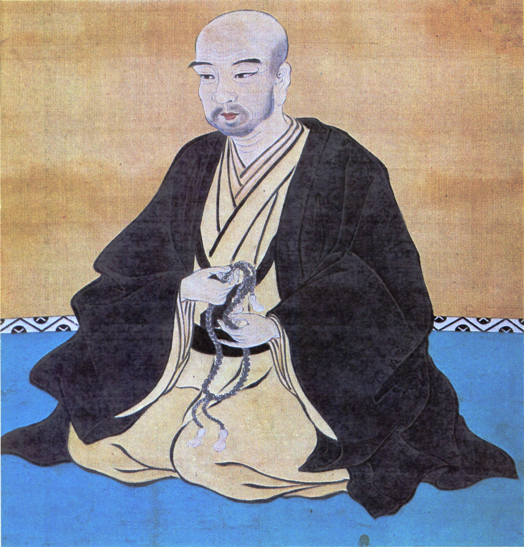 Portrait of Toda Kazuaki